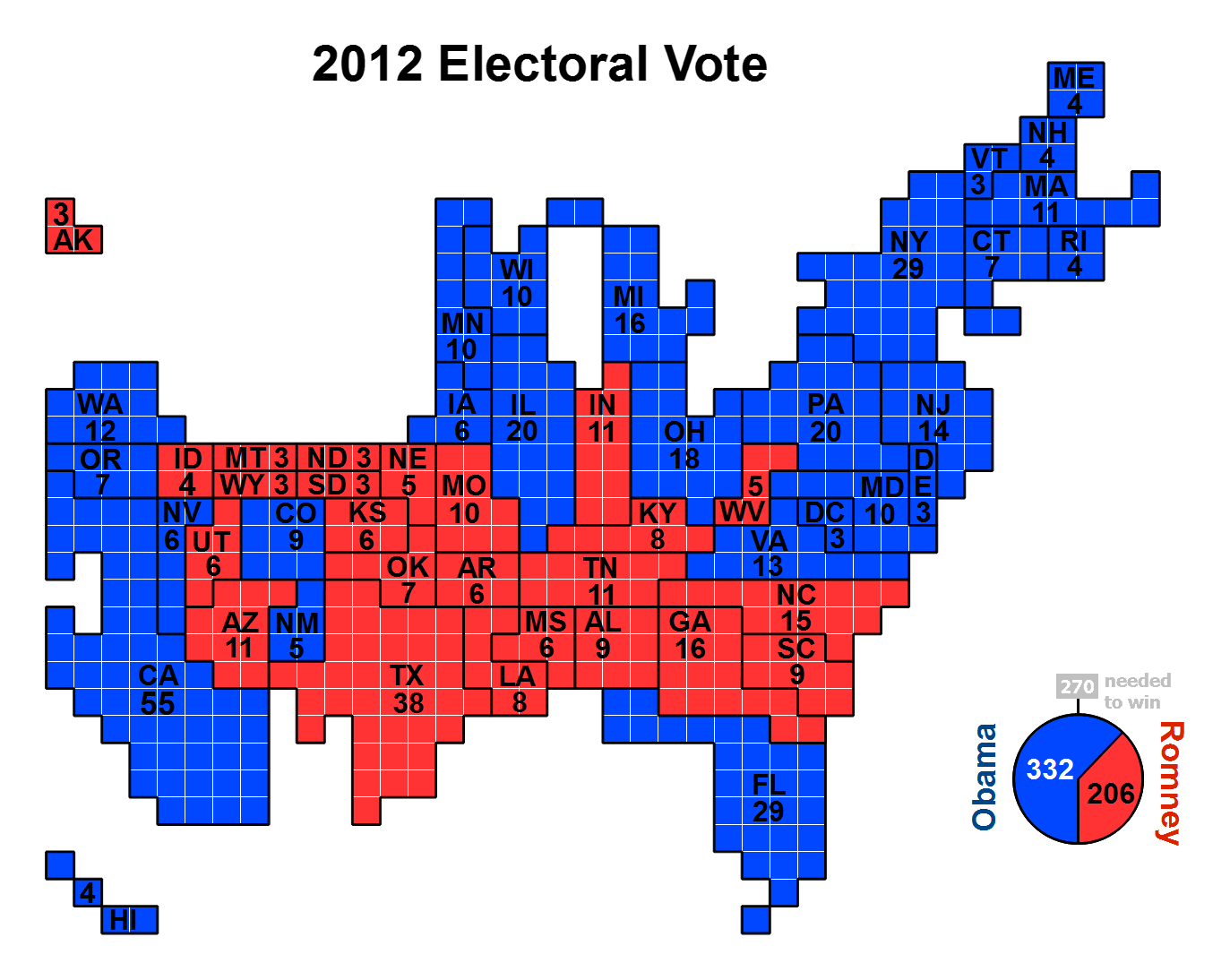 Cartogram of the 2012 Electoral Vote for US President, with each square representing one electoral vote. The population density of the 50 states varies by three orders of magnitude (from NJ with nearly 1,200 people per square mile, to AK with roughly 1 1/4 people per sq mi). Because of that huge variation, a regular map of the US that is typically used to present electoral vote results can convey a very skewed impression of the outcome where sparsely populated states appear overrepresented and densely populated states appear underrepresented. The cartogram approach of this image eliminates that problem by presenting the area of each state in an exact one-to-one correspondence with its number of electoral votes. But this is achieved at the cost of introducing distortions to the actual shape of each state and their positioning in relation to each other.